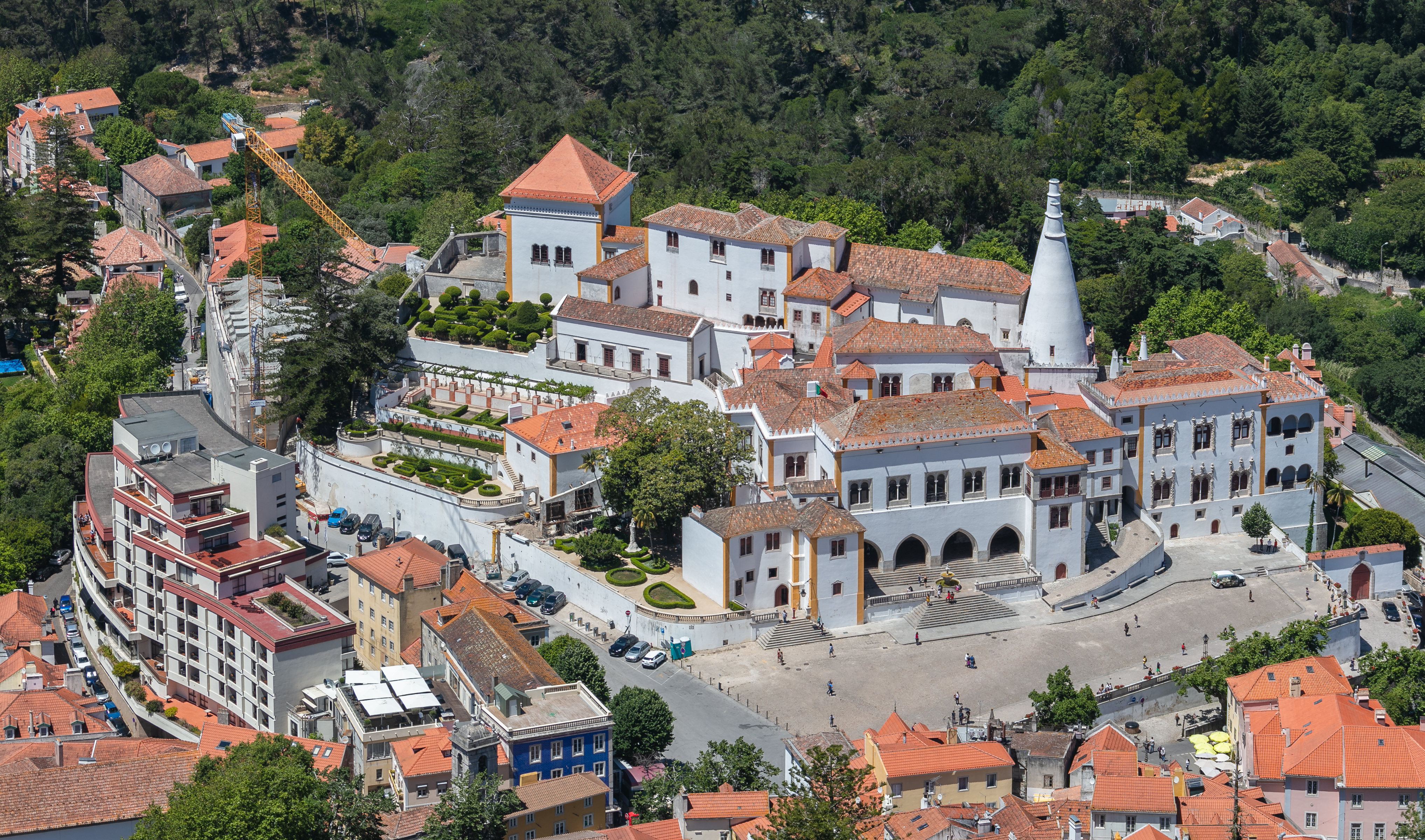 Palácio Nacional, Sintra, Portugal